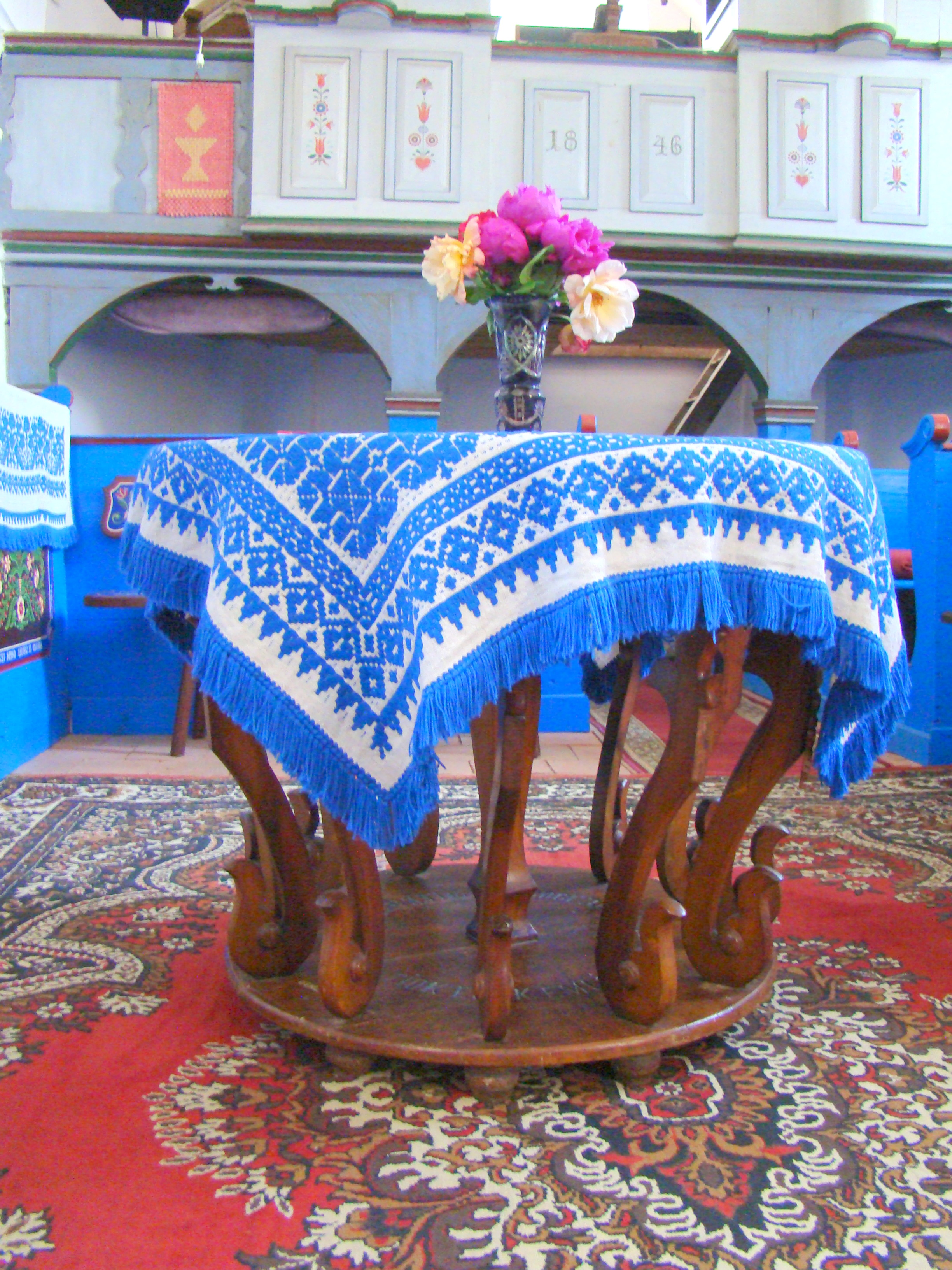 Unitarian church in Satu Nou, Harghita County, Romania